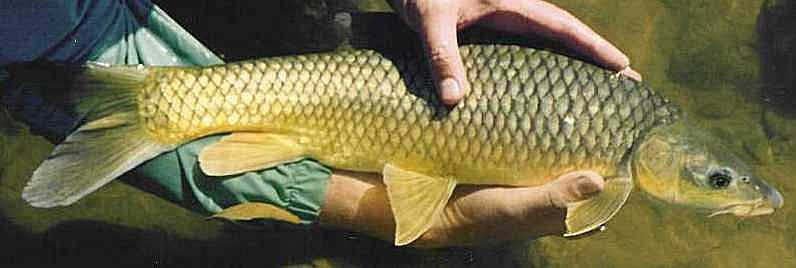 Smallmouth Yellowfish in Orange river at Richtersveld, Northern Cape